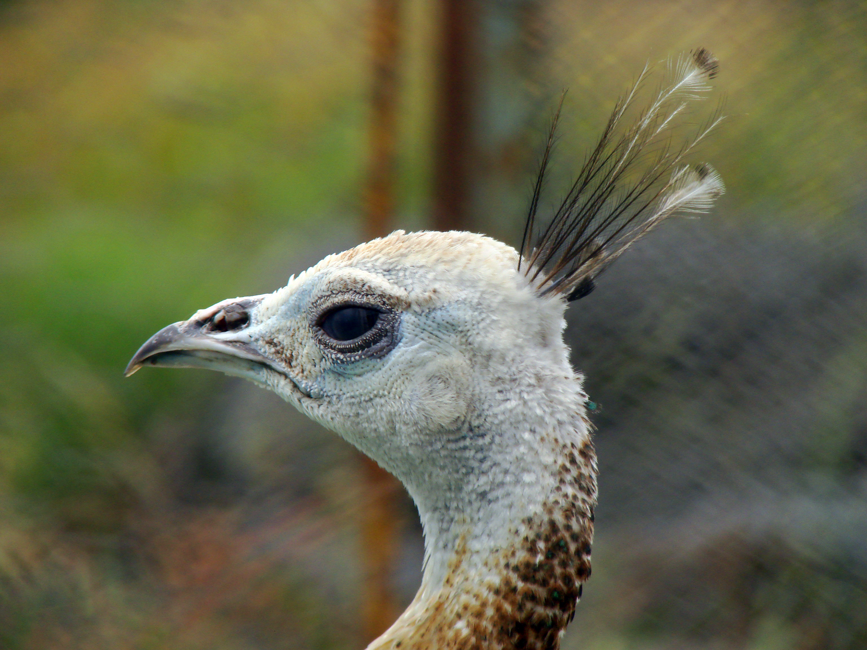 Shahrak-e Namak Abrud is a touristic village and has an aerial tramway which starts at the sea level near the shores of the Caspian Sea and ends on the top of the Alborz heights crossing dense forest area of northern Iran. There are numerous villa cities around it which form a vacation region for the people of Tehran.